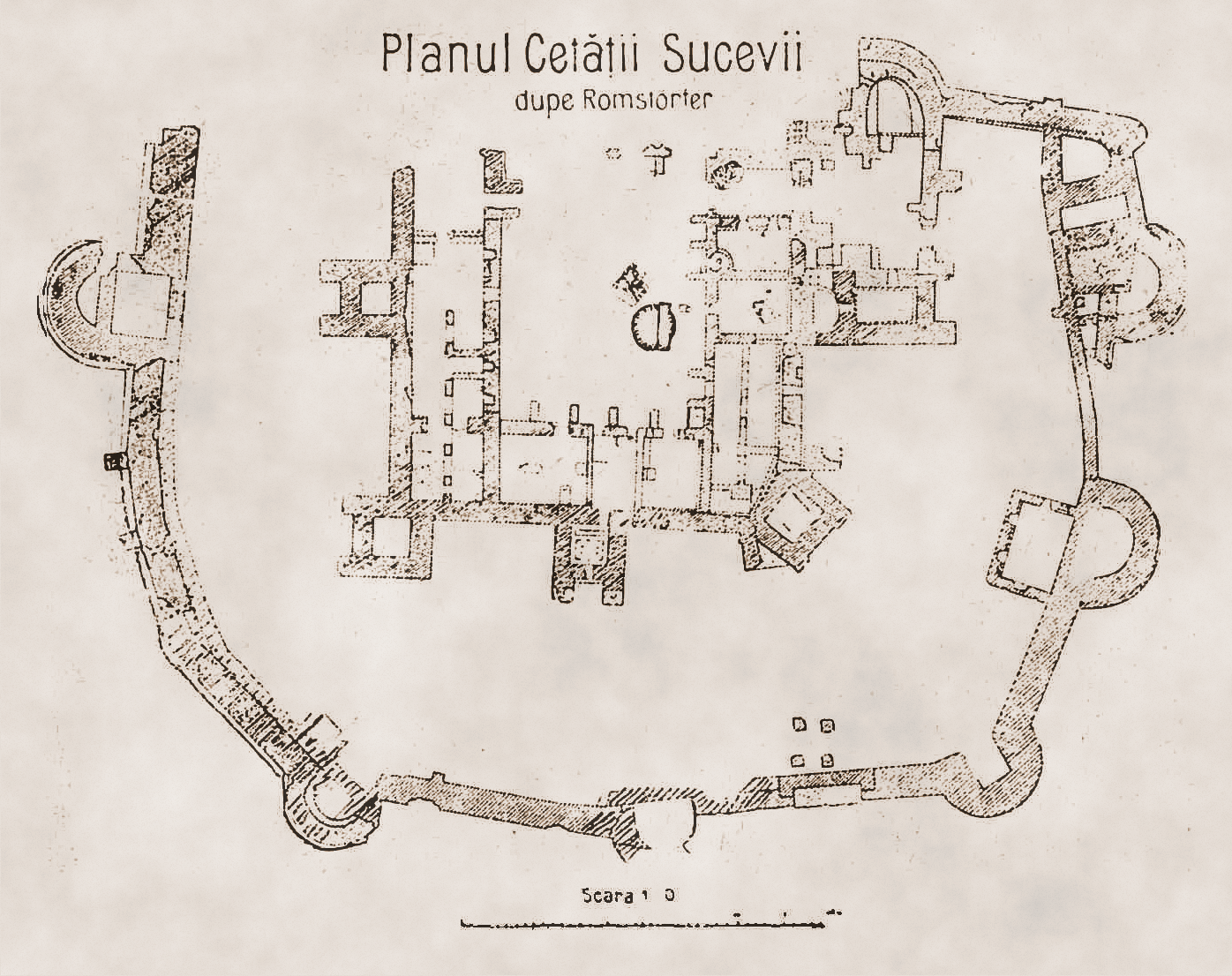 Seat Fortress of Suceava – the fortress plan from general Radu R. Rosetti's book.